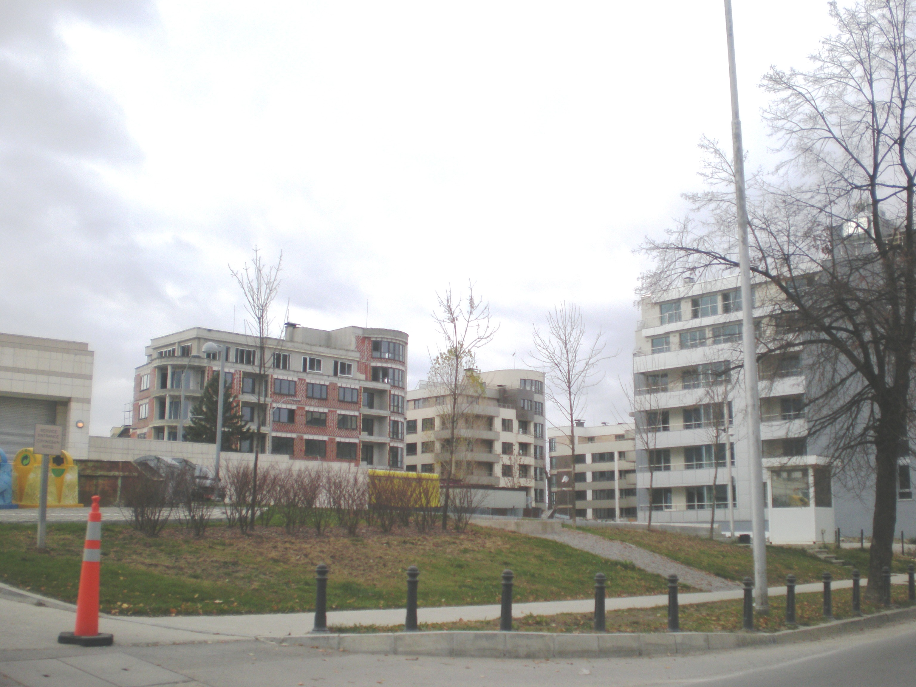 South park district - Sofia, Bulgaria